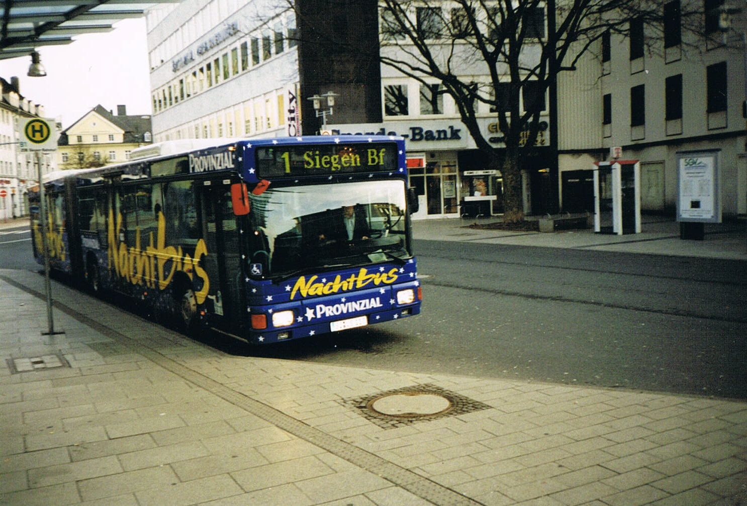 Bus line 1 at the central bus station Siegen